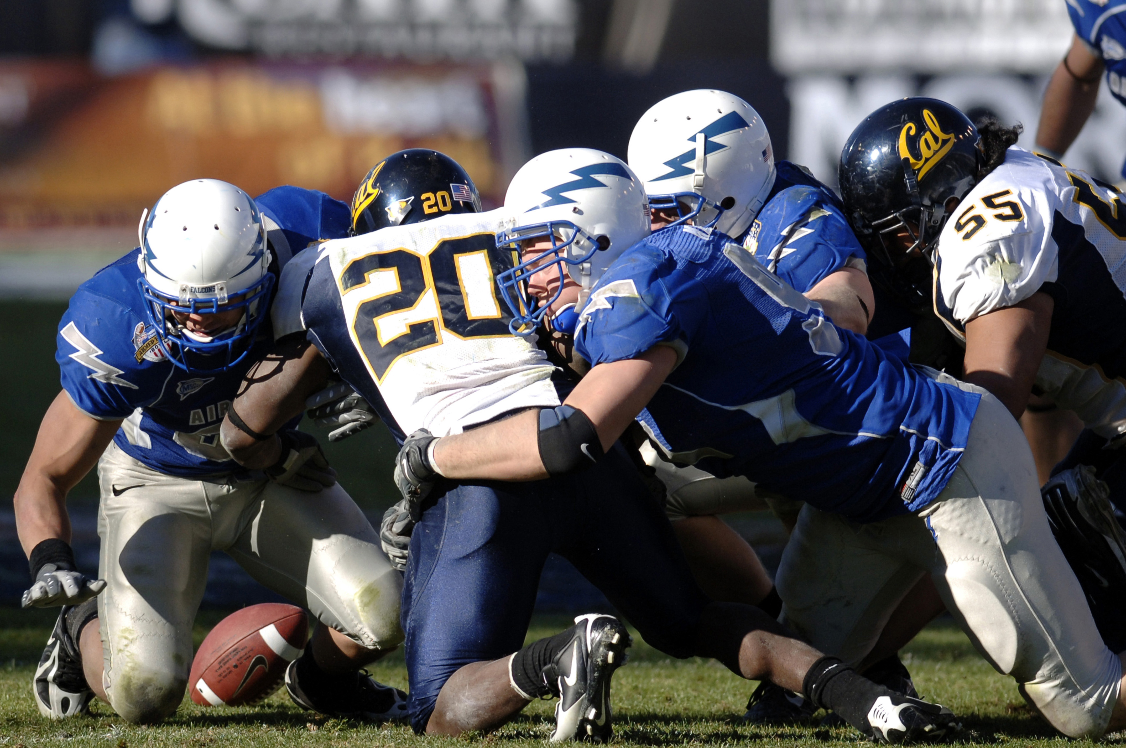 U.S. Air Force Academy senior linebacker Aaron Shanor recovers a fumble by California Golden Bears tailback Justin Forsett during the Bell Helicopter Armed Forces Bowl at Amon G. Carter Stadium in Fort Worth, Texas. ID: 071231-F-0558K-010